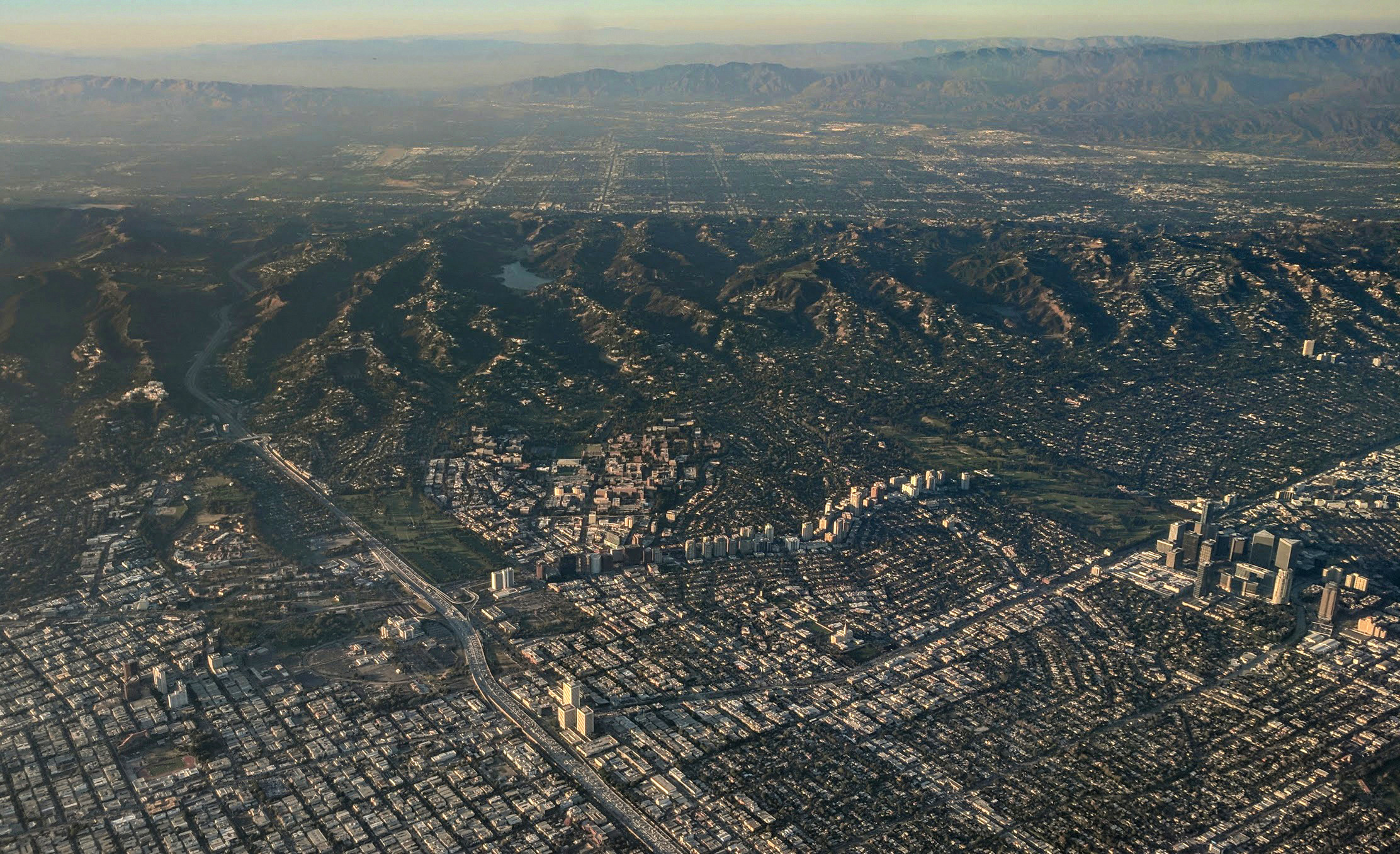 Late afternoon aerial photograph of Los Angeles's Westwood neighborhood (center), including the University of California, Los Angeles, and the Wilshire District of tall buildings along Wilshire Boulevard; the adjacent Century City neighborhood, far right; the eastern end of the Santa Monica Mountains, and beyond that the San Fernando Valley, in the background; Interstate 405 at the left.